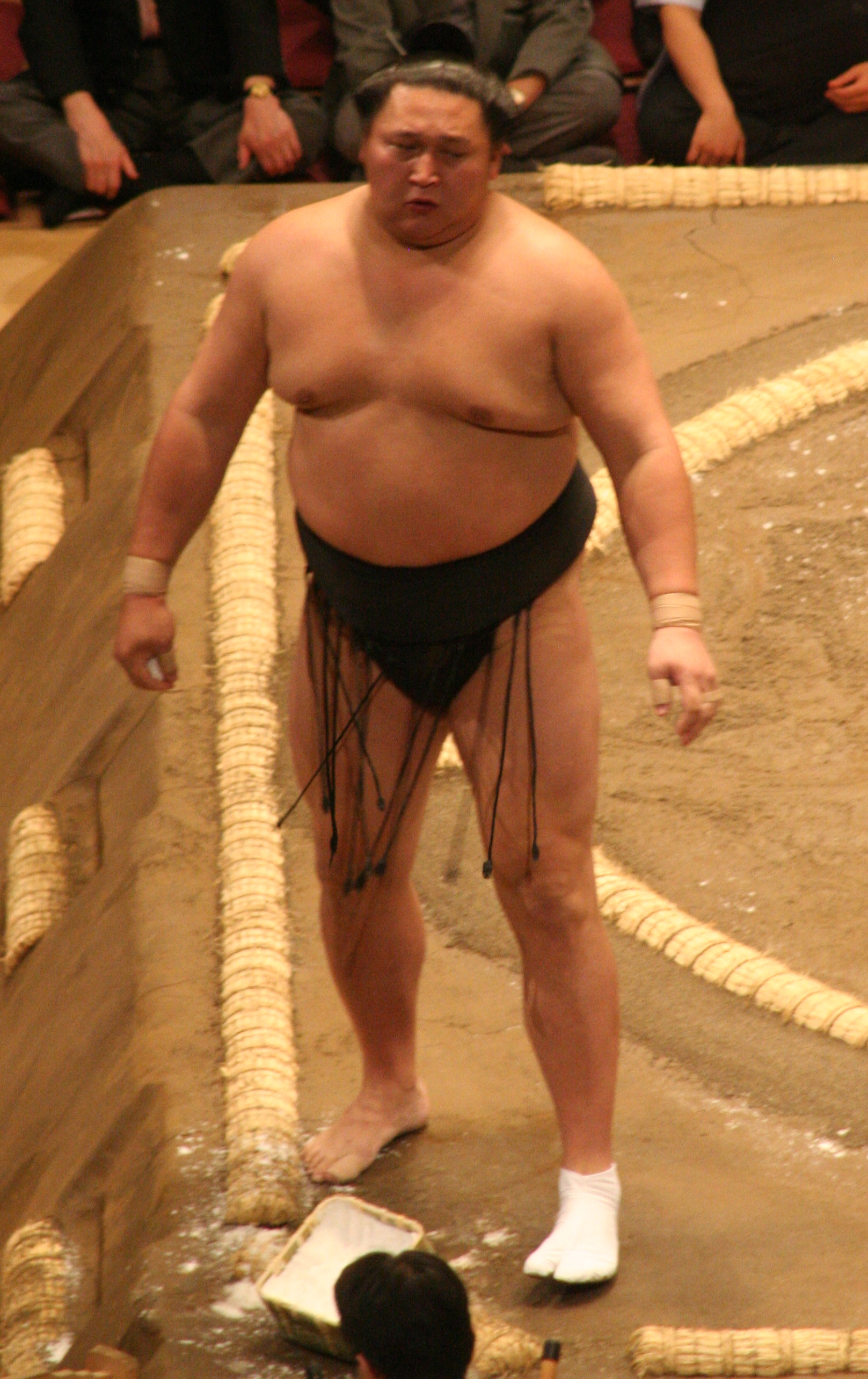 First day of 2009 May Sumo Tournament in Tokyo, Japan - Kyokutenho